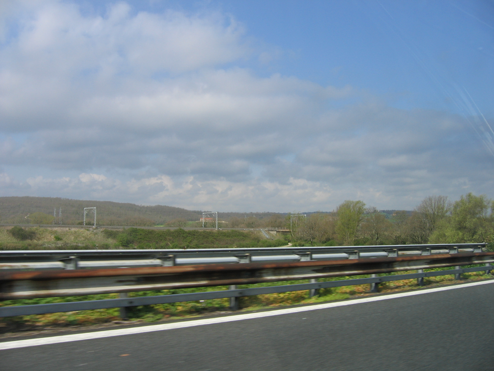 Italian rail lines, seen from A1 near Orte